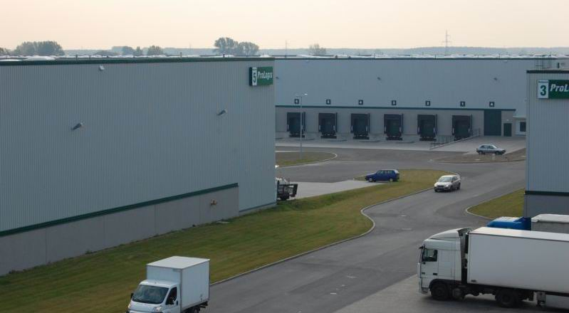 Sady - park magazynowy ProLogis Park Poznań II